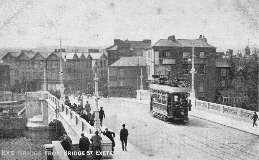 An electric tram crosses the old Exe Bridge in Exeter, Devon, England.